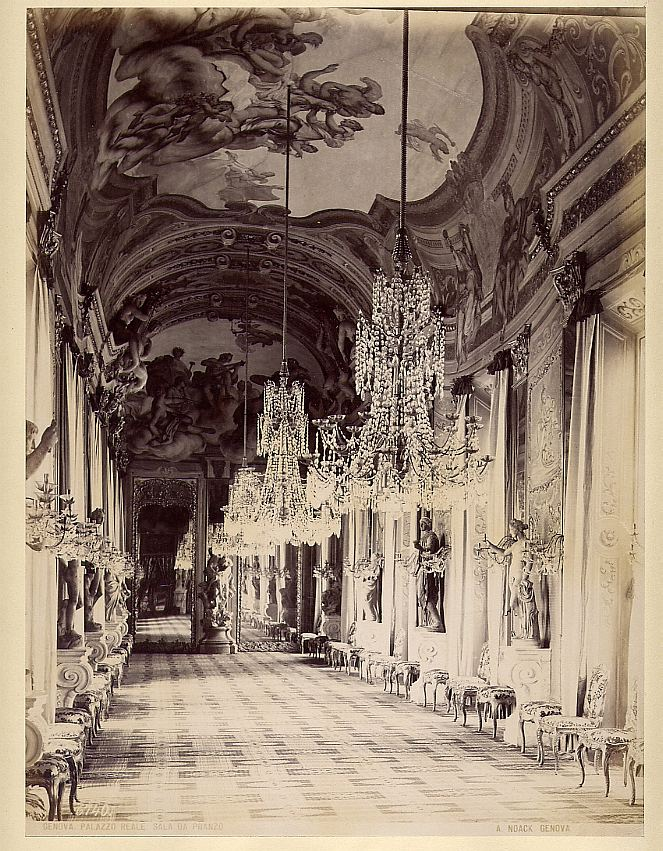 Alfred Noack (1833-1895) - "Genoa. Royal Palace, dining room". Ca. 1880s. Catalogue number: 6740.